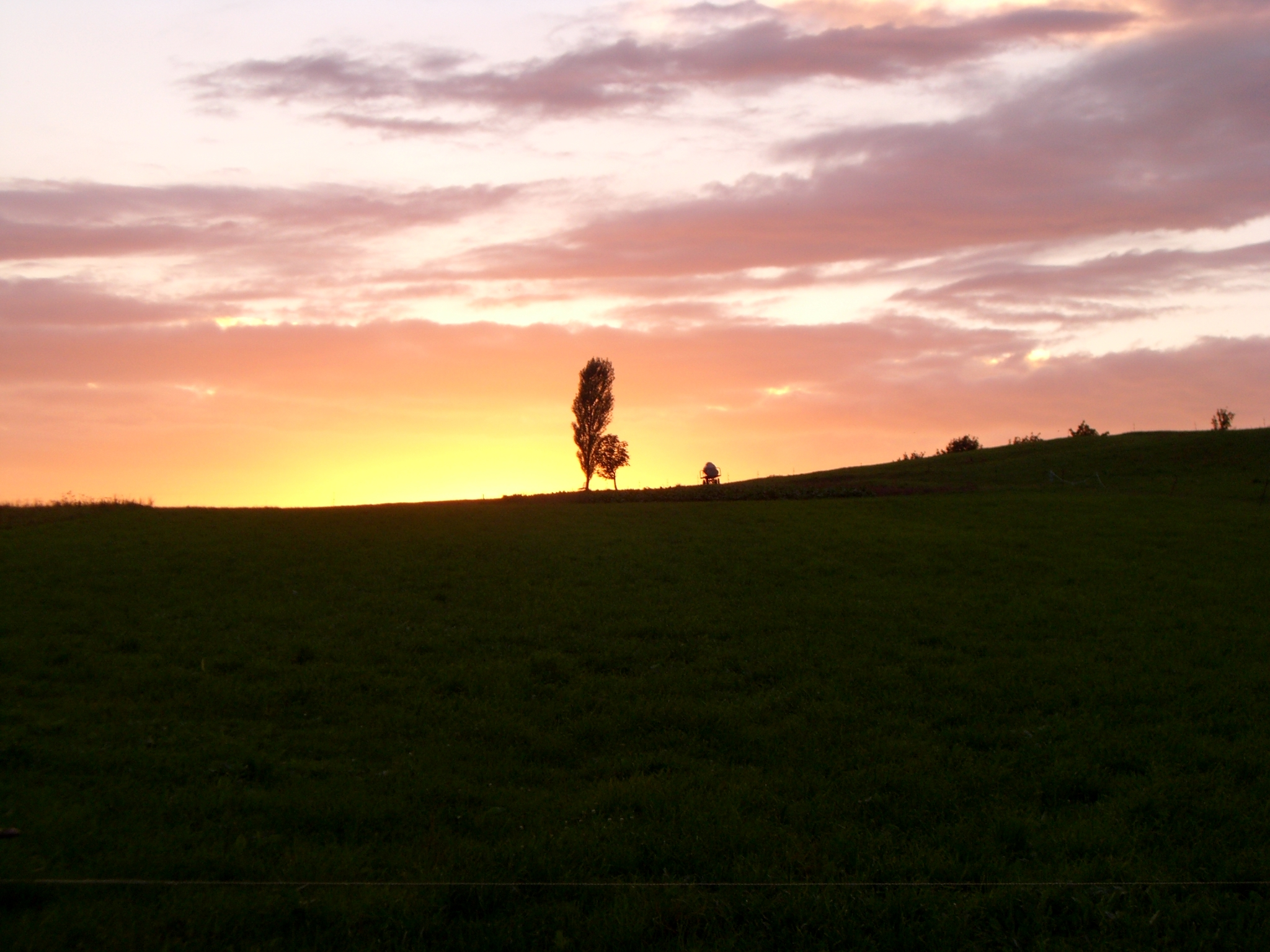 Sunset near Schellenberg, Saxony.